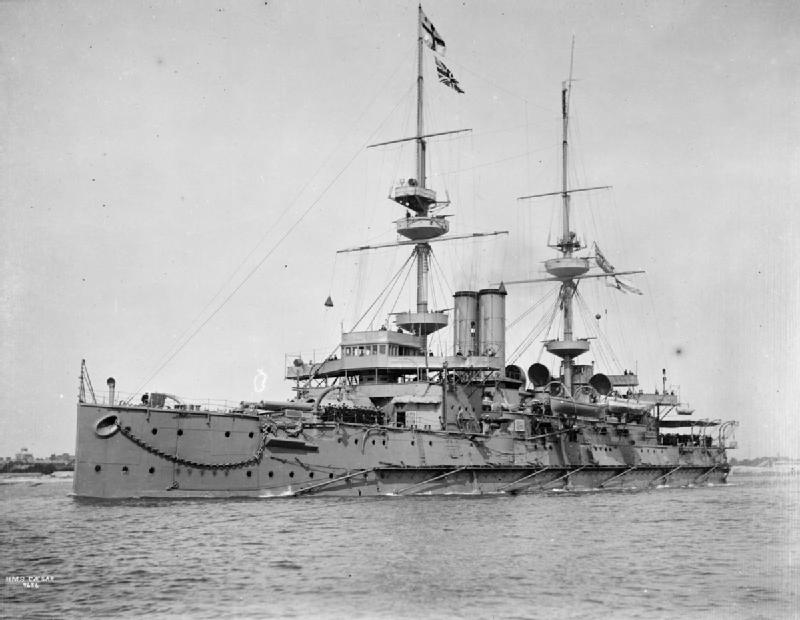 British battleship HMS CAESAR